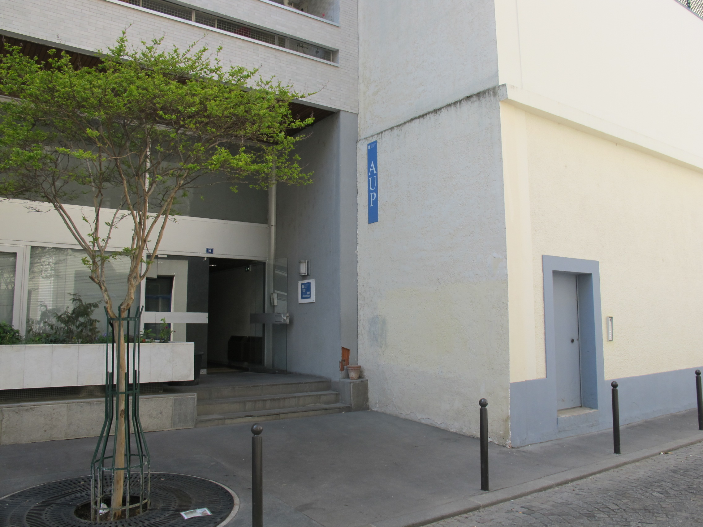 The American University of Paris